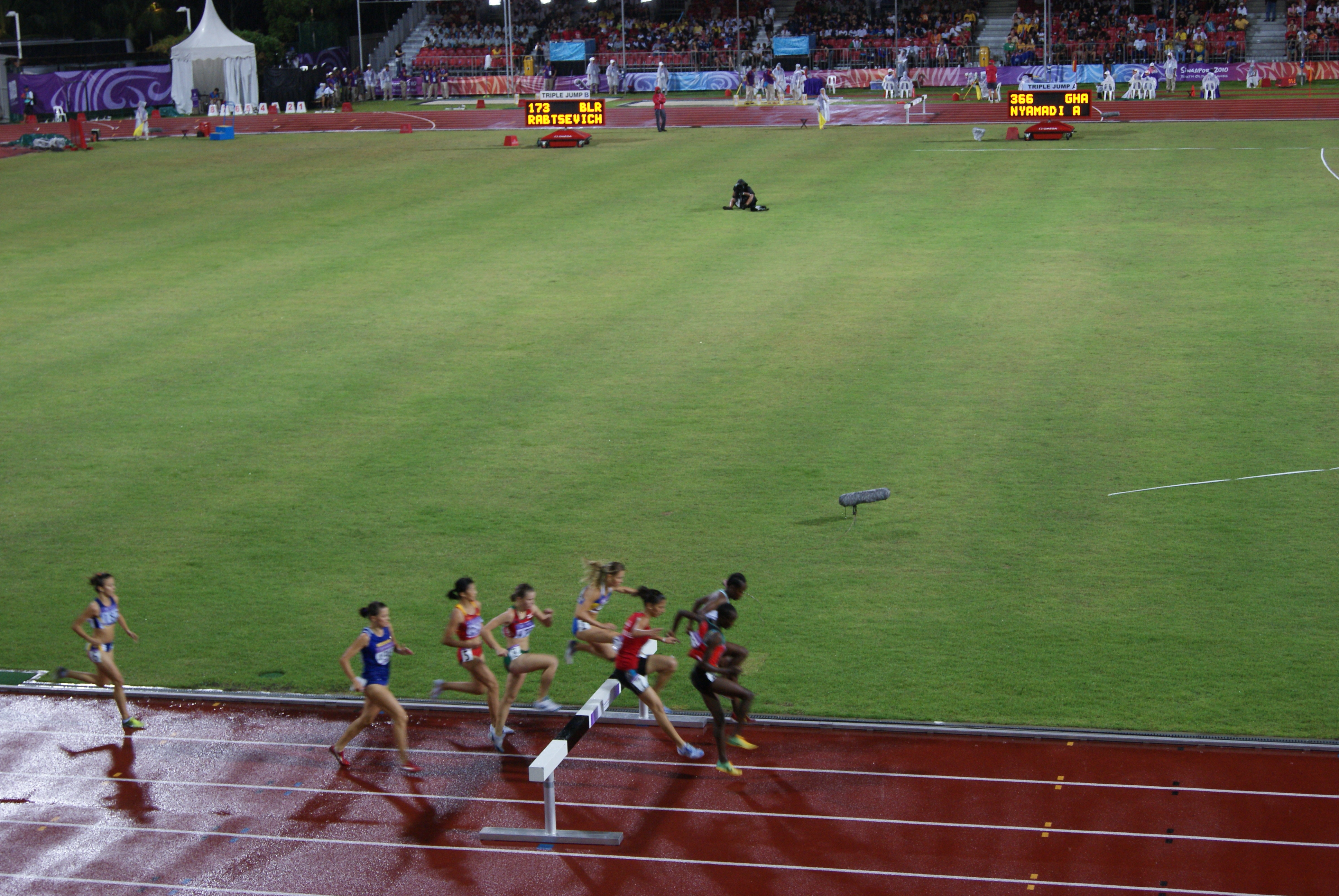 Athletics at the 2010 Summer Youth Olympics, held at Bishan Stadium, Singapore.